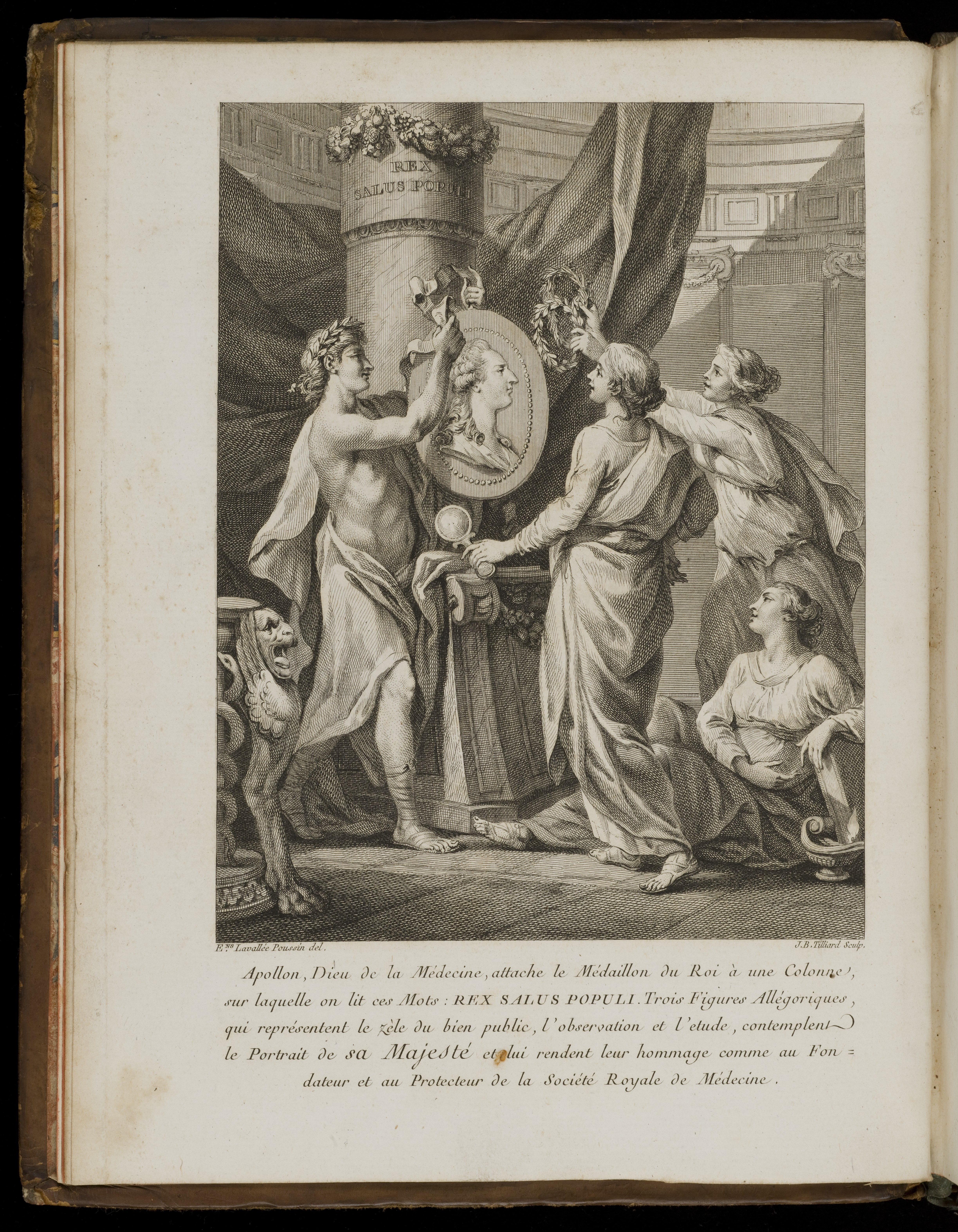 Frontispiece to 'Histoire de la Societe Royale de Medecine', showing Apollo and three allegorical figures Rare Books